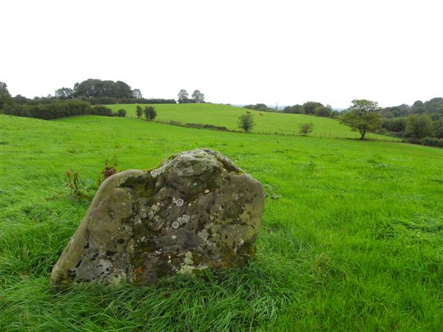 Standing stone at Sess Kilgreen